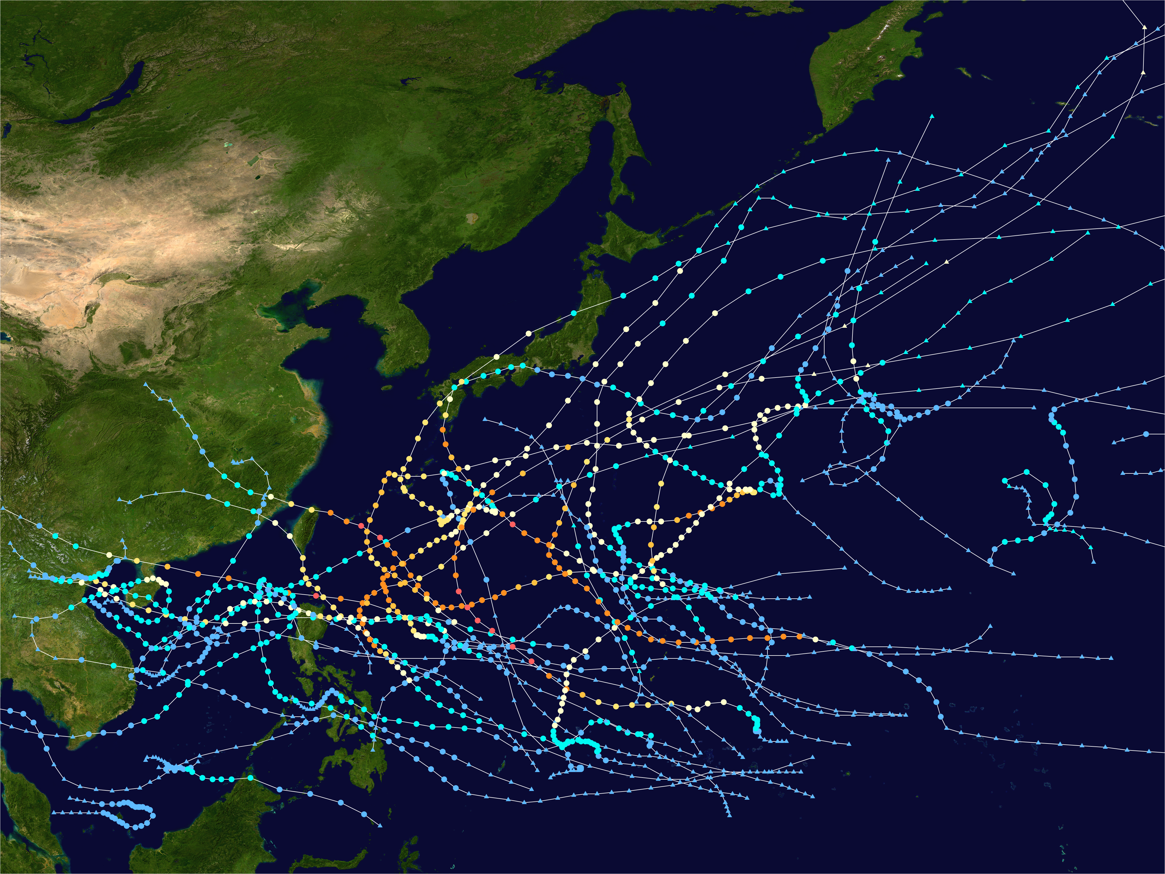 This map shows the tracks of all tropical cyclones in the 1996 Pacific typhoon season. The points show the location of each storm at 6-hour intervals. The colour represents the storm's maximum sustained wind speeds as classified in the Saffir-Simpson Hurricane Scale (see below), and the shape of the data points represent the type of the storm. Saffir–Simpson scale Tropical depression≤38 mph≤62 km/h Category 3111–129 mph178–208 km/h Tropical storm39–73 mph63–118 km/h Category 4130–156 mph209–251 km/h Category 174–95 mph119–153 km/h Category 5≥157 mph≥252 km/h Category 296–110 mph154–177 km/h Unknown Storm type Tropical cyclone Subtropical cyclone Extratropical cyclone / Remnant low / Tropical disturbance / Monsoon depression